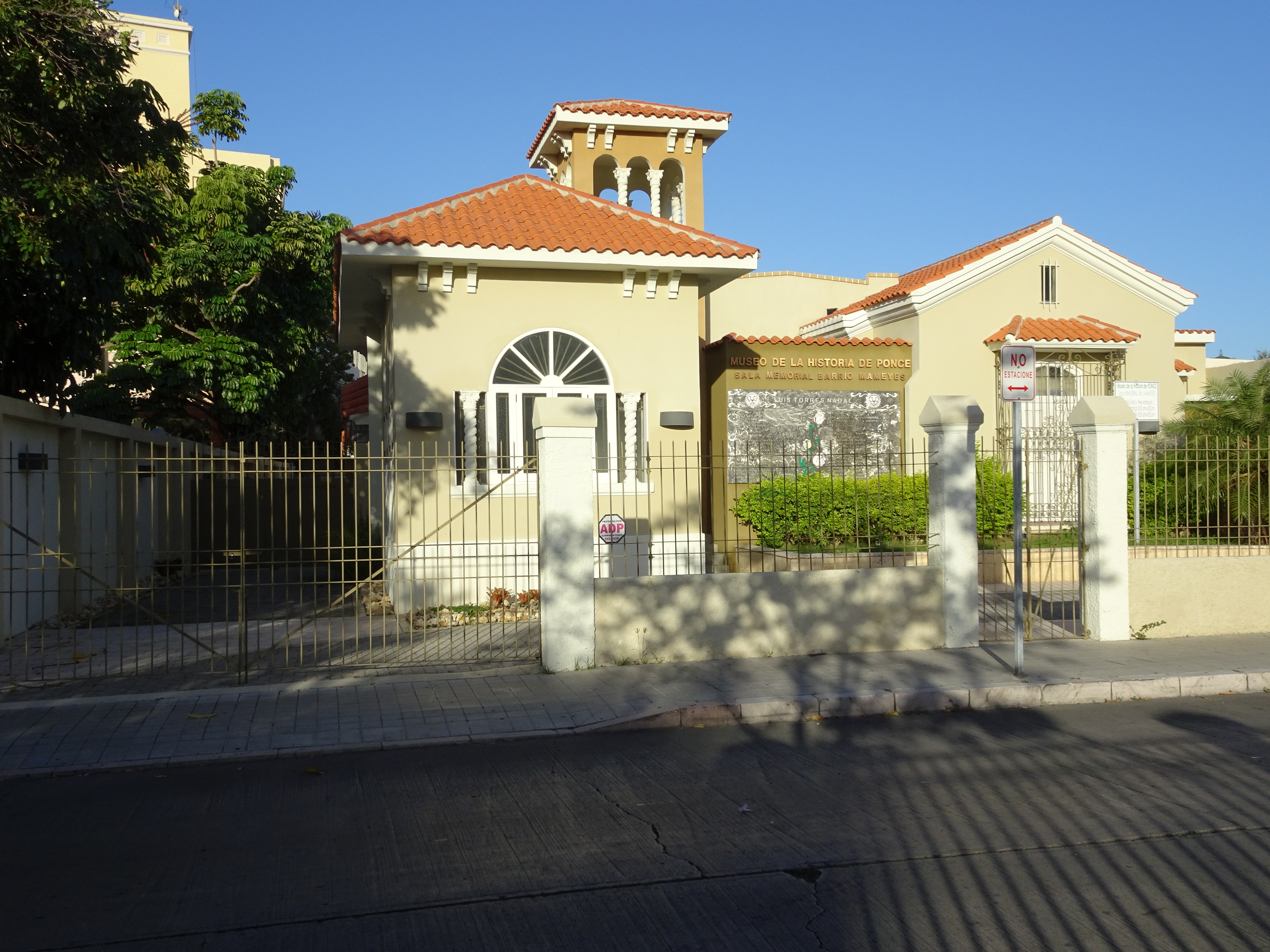 Casa Rosita Serralles, Barrio Tercero, Ponce, Puerto Rico (DSC00351)